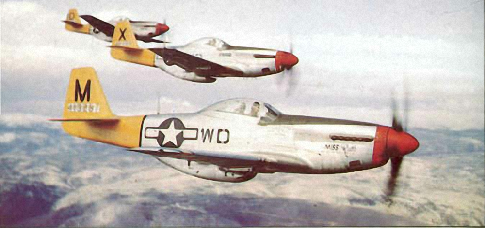 North American P-51D 44-13287, WD-M “Miss Ruth” of the 4th FS, 52nd FG. WD-D "Jo-Baby..." 44-13263 in background.